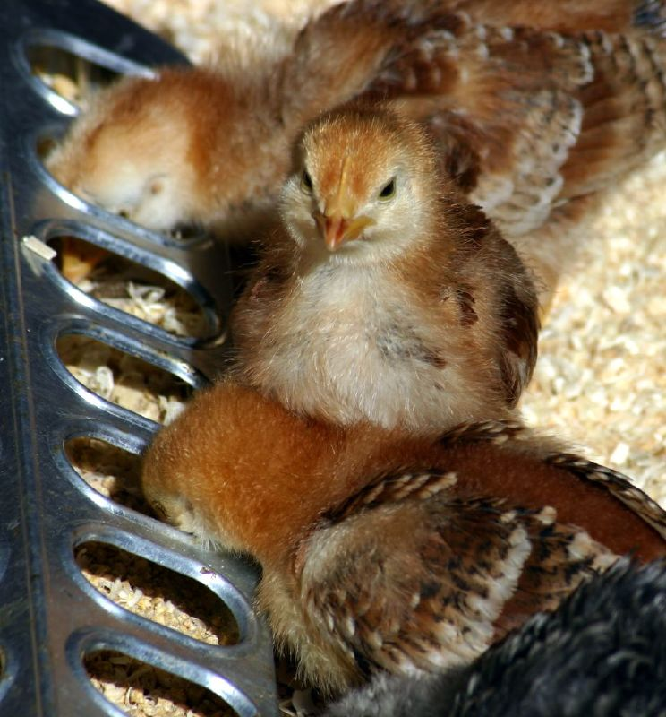 Week and a half old Rhode Island Red chicks eating at a feeder.